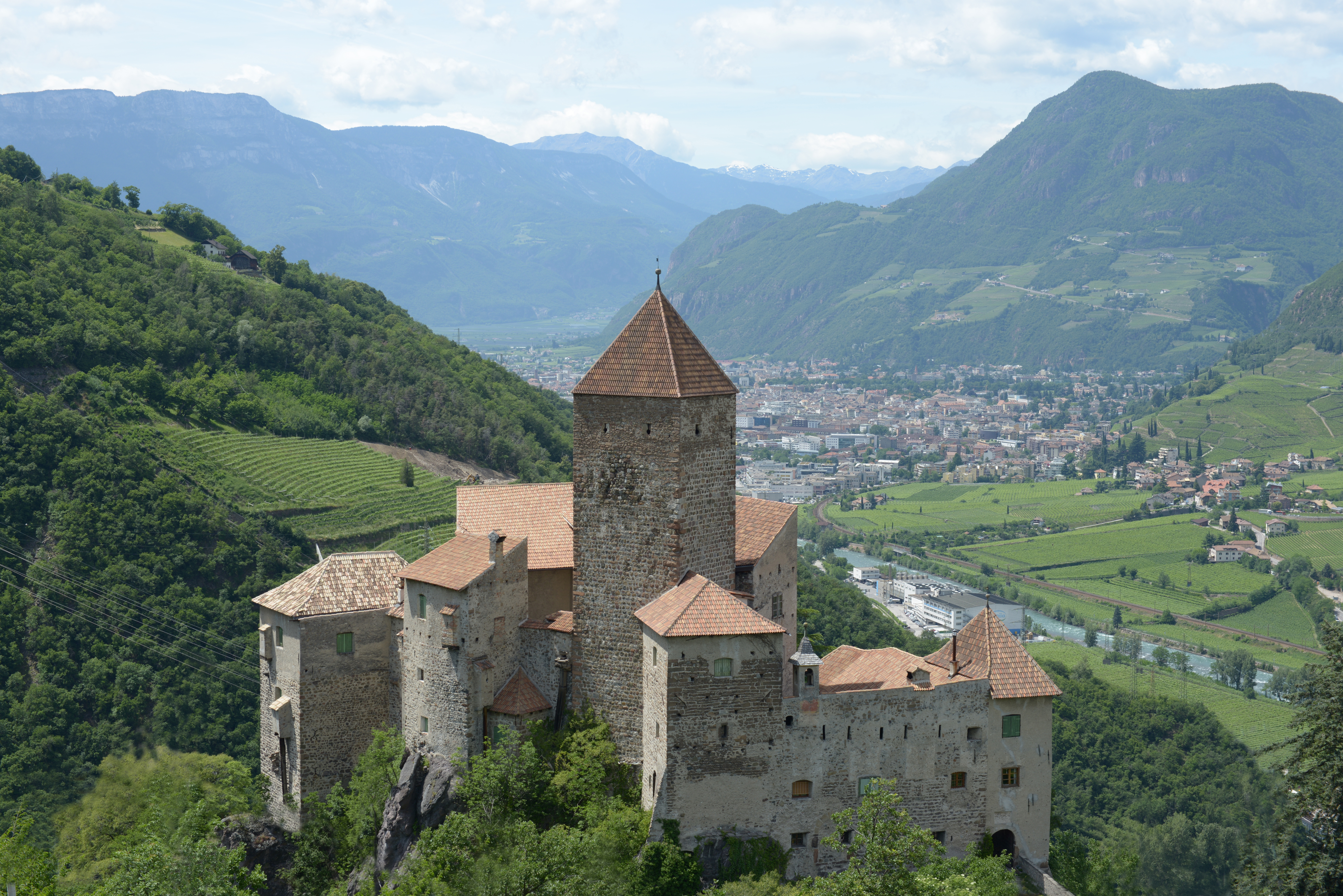 The Castle Karneid and the city of Bozen in South Tyrol